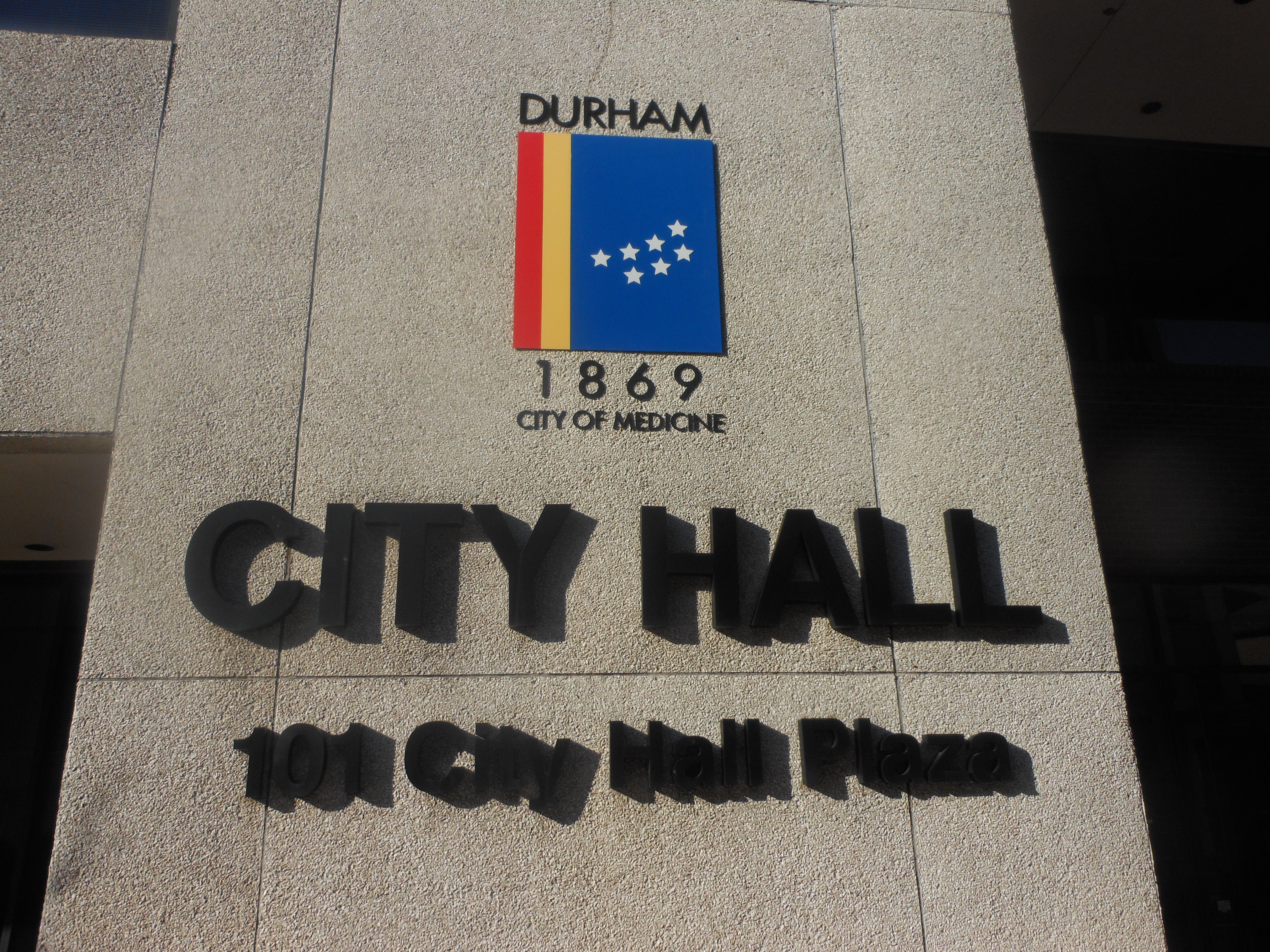 Durham City Hall in Durham, NC